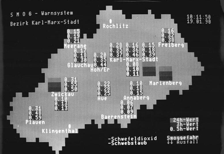 Smog around Karl Marx Stadt, Chemnitz, Germany: computer visualization in 1990